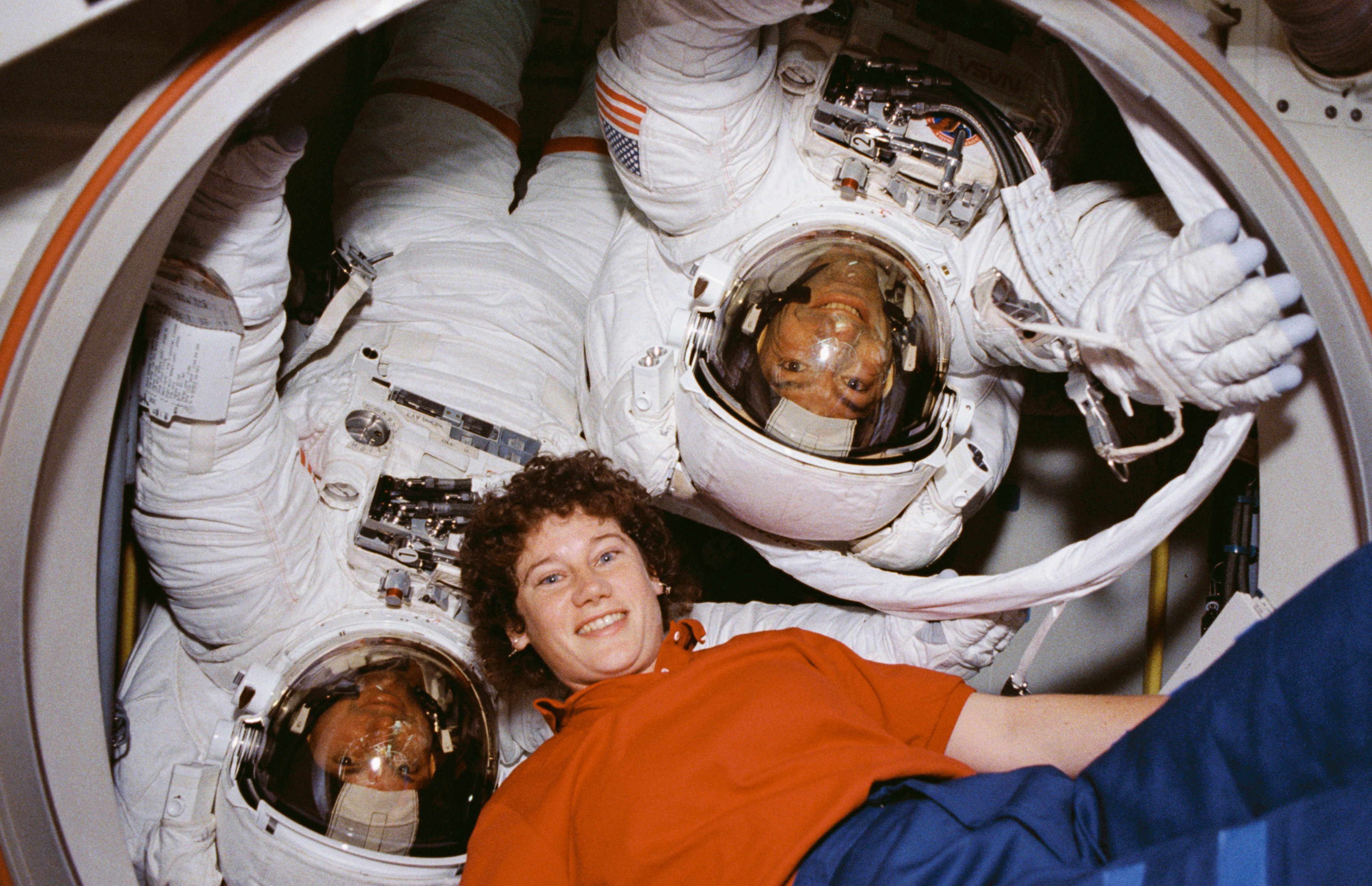 STS-54 Mission Specialist Greg Harbaugh (red stripe) and Mission Specialist Mario Runco, both wearing their space suits, pose with Mission Specialist Susan Helms as they emerge from the mid-deck airlock with Helms' assistance. Harbaugh and Runco returned from a series of EVA tasks designed to increase NASA's knowledge of working in space. They tested their abilities to move about freely in the cargo bay, climb into foot restraints without using their hands, and to carry large objects in microgravity.